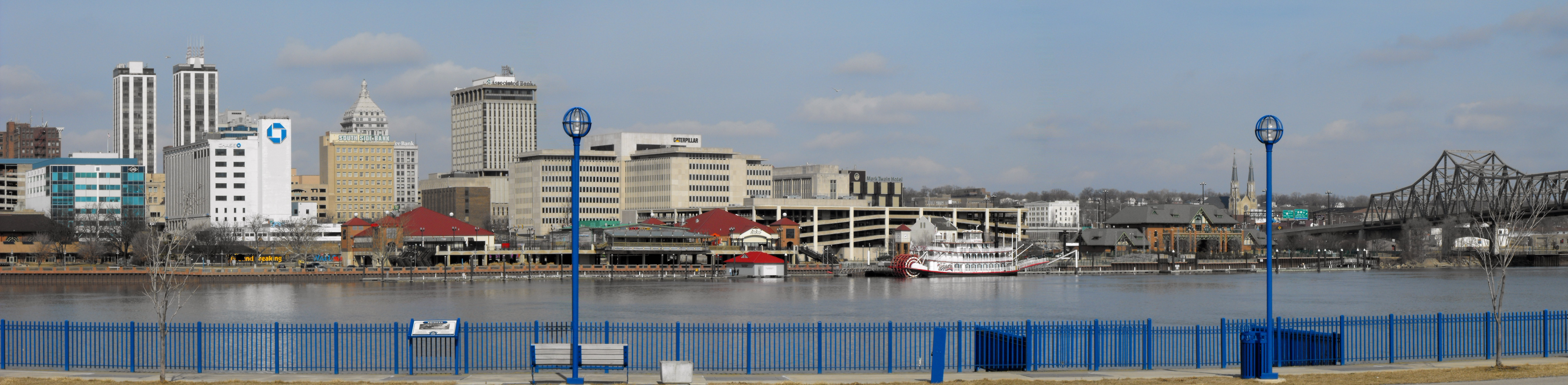 This is a photograph shot in panoramic format from the East Peoria side of the river of downtown Peoria, Illinois.